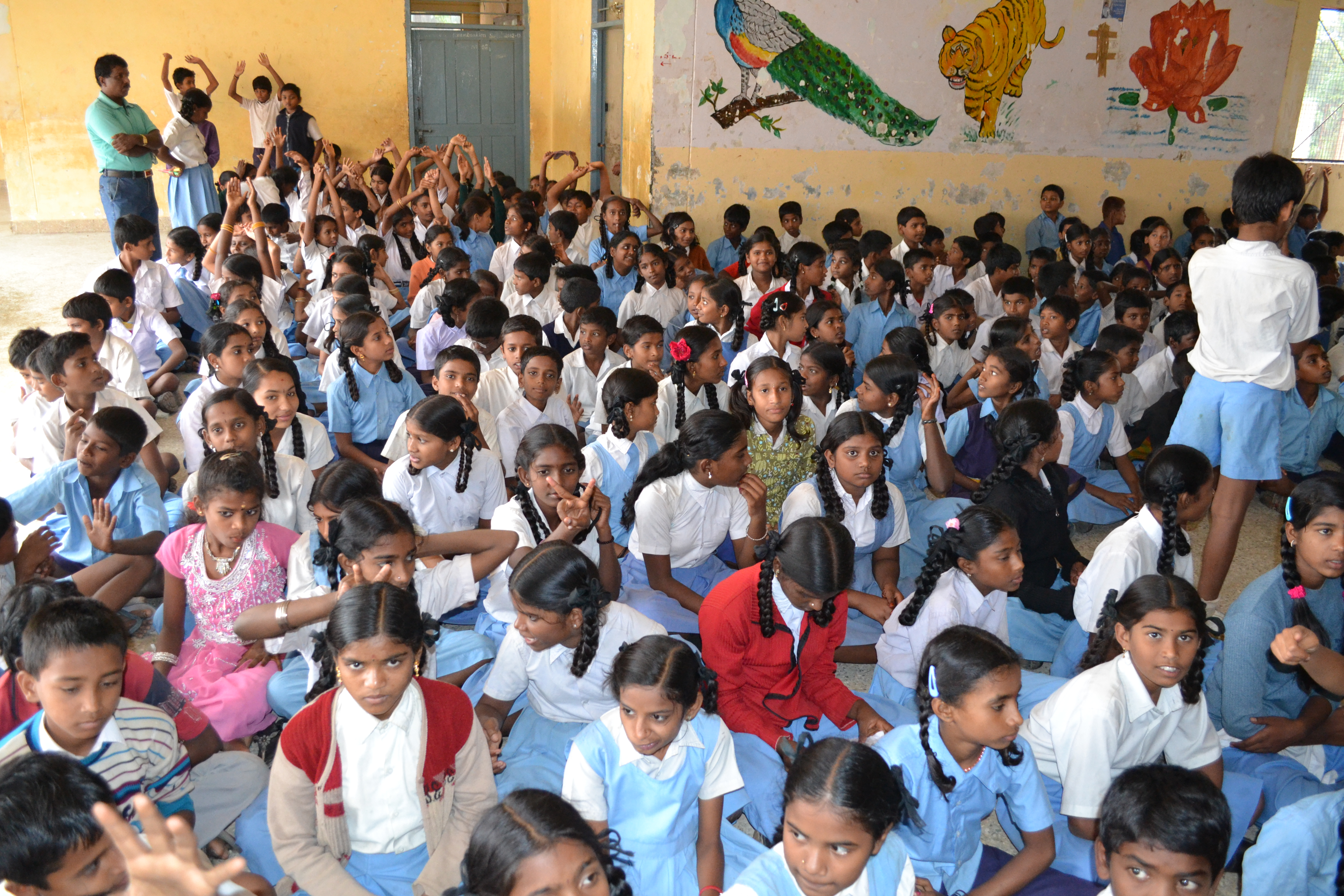 Mobile Library 2012 program by Singing Skylarks